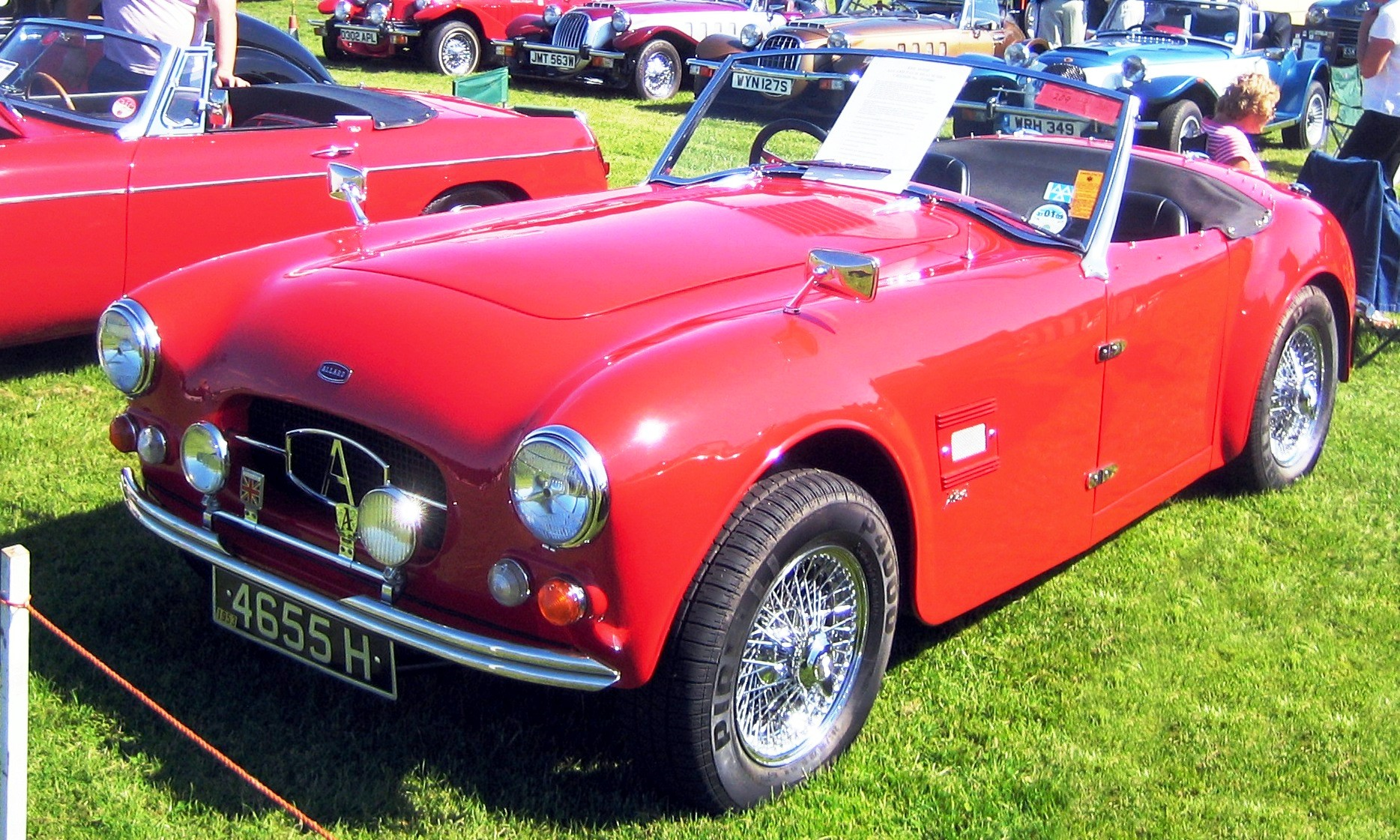 1953 Allard Palm Beach. Originally fitted with Ford Consul/Zephyr engines this one now has a 3.8 liter Jaguar XK inline-six.